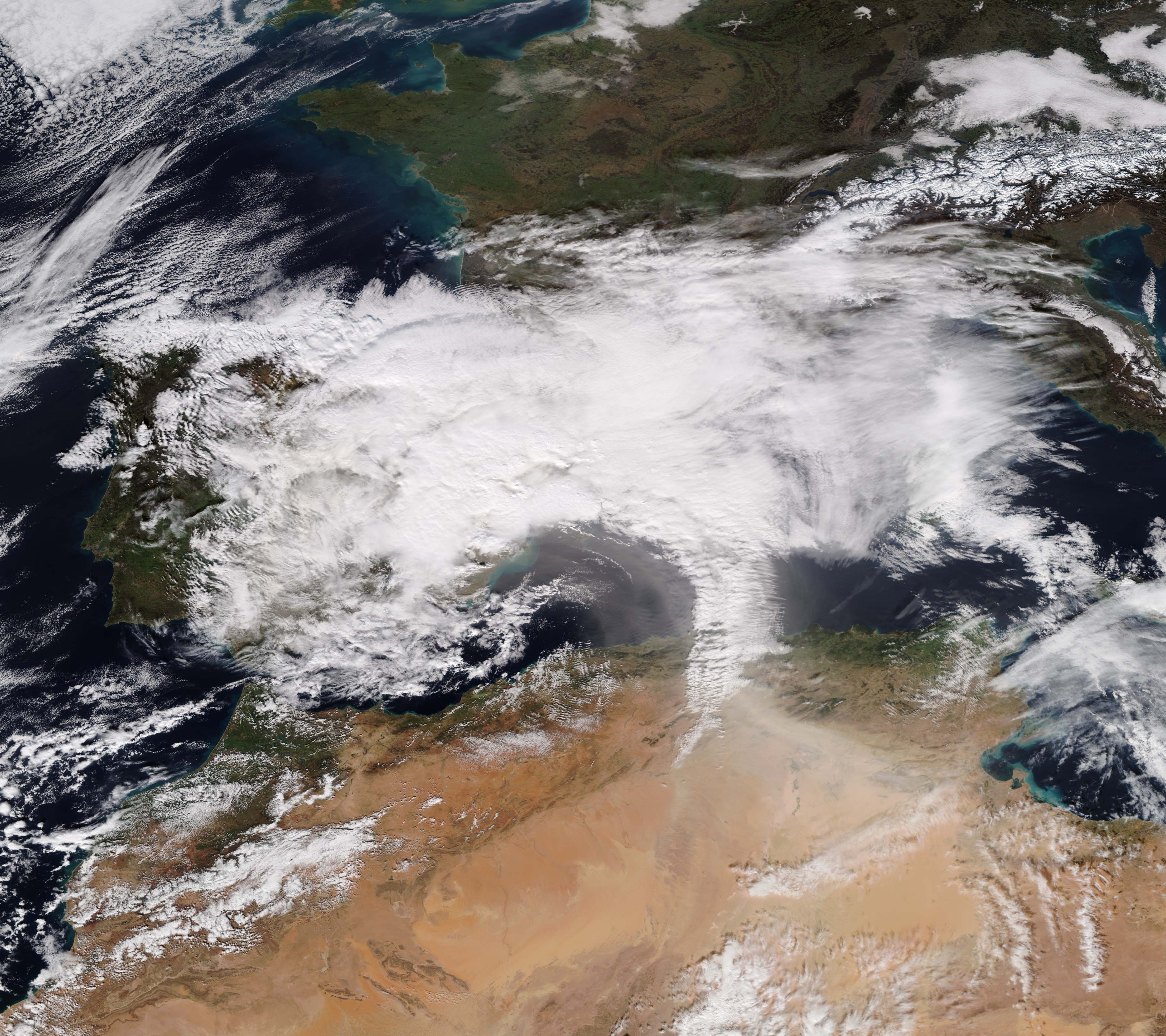 Storm Gloria over the western Mediterrannean Sea on 21 January 2020. Stalling for several days over the Iberian Peninsula and Balaeric Islands, Gloria caused widespread damage across these areas.